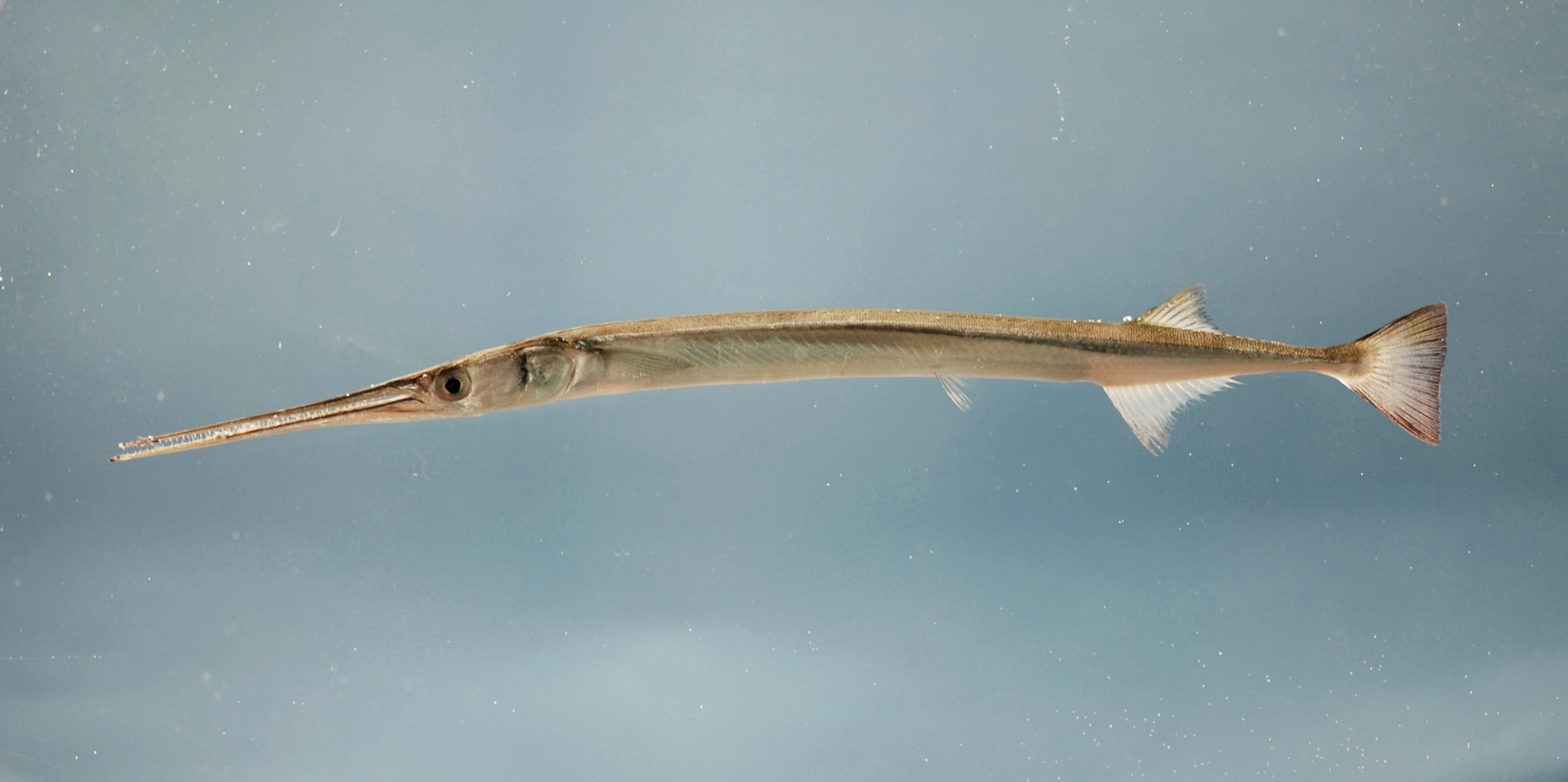 Atlantic needlefish ( Strongylura marina ). Gulf of Mexico.